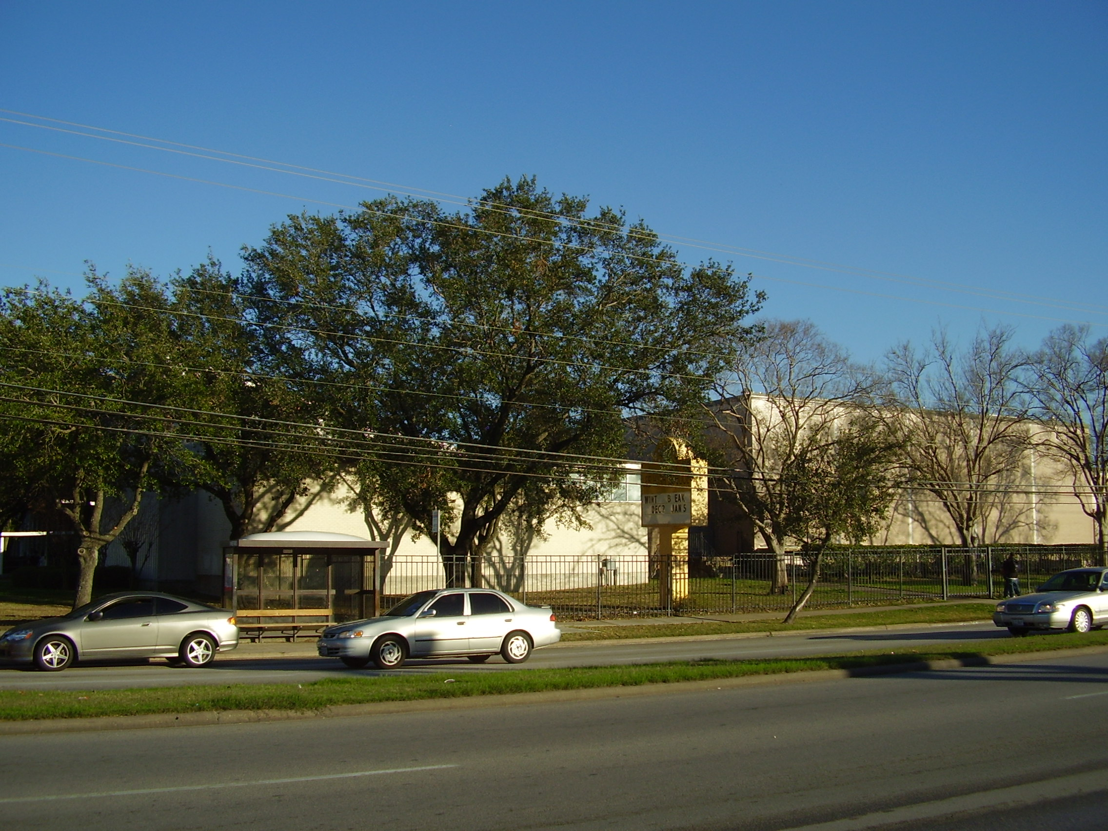 Lee High School (Houston)